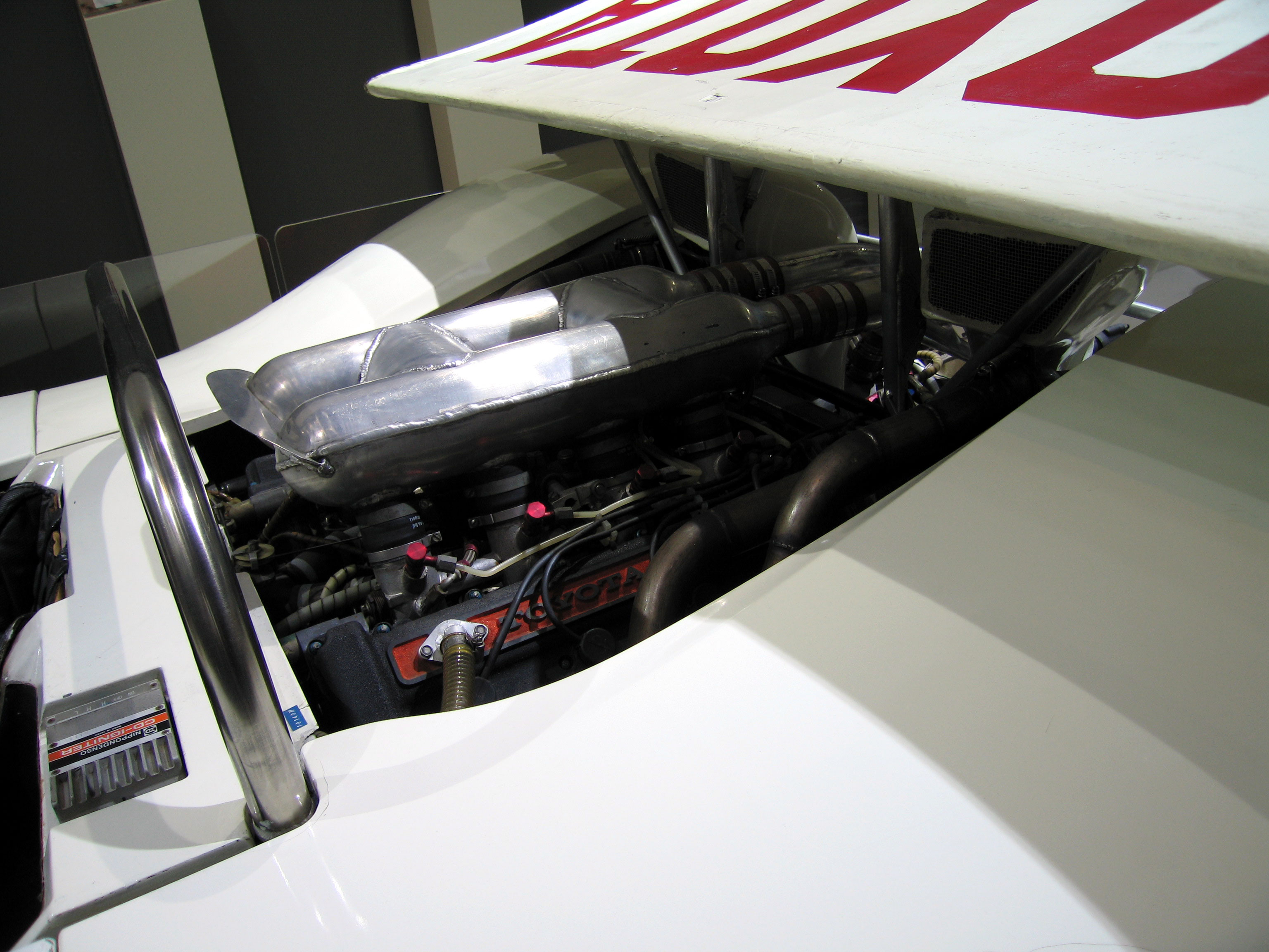 Toyota 7 at the IAA 2007